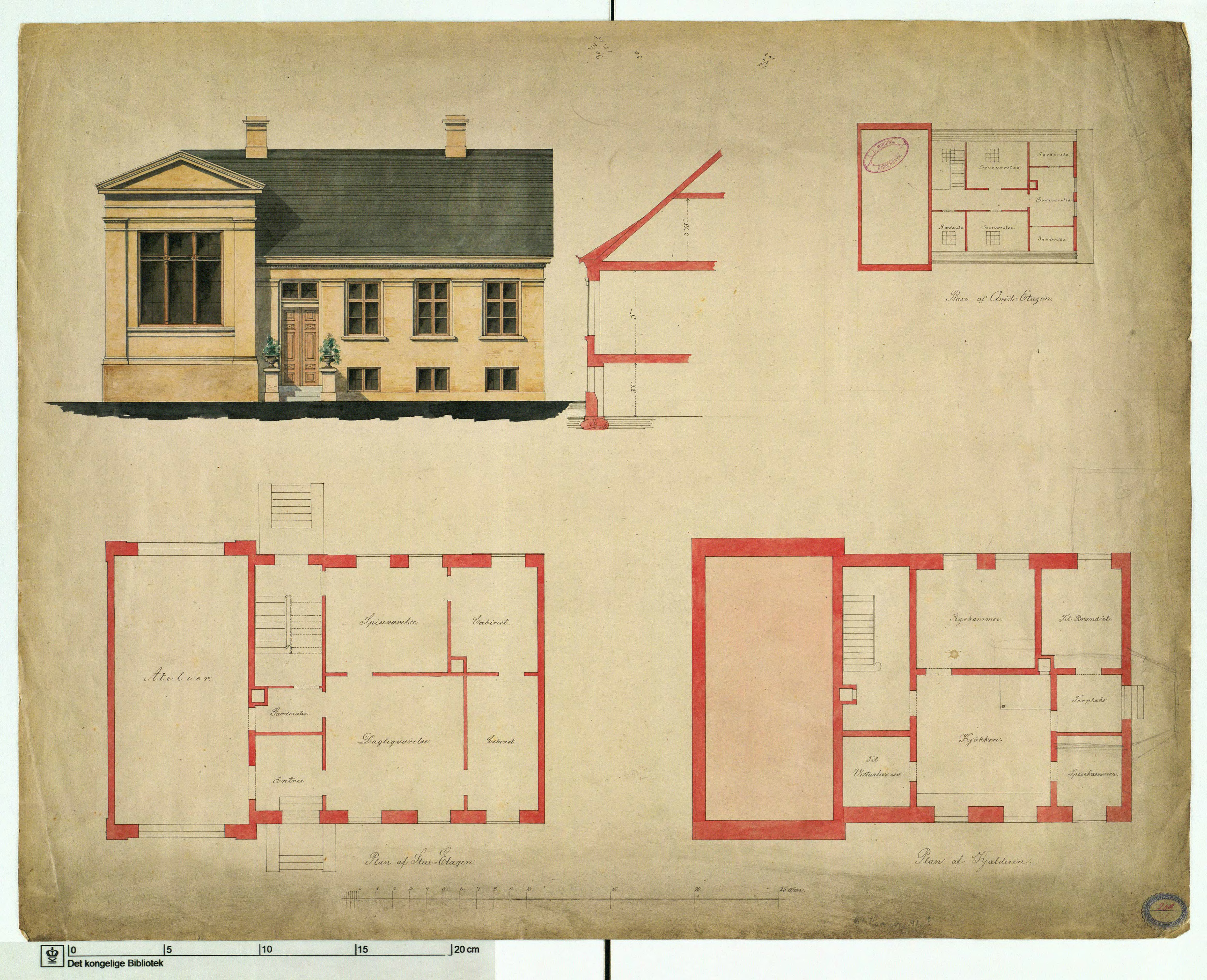 One of two proposals from 1852, one neoclassicist, the other neo-gothic, for painter Niels Simonsen's villa at 117 Gammel Kongevej, Frederiksberg. This was not executed, the neo-gothic one was. The villa was later demolished.